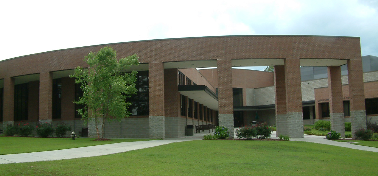 The Luck Flanders Gambrell Center on the campus of East Georgia College in Swainsboro, Georgia. Built in 2001, this building serves as the college's library as well as housing an 480-seat auditorium, classroom space, and executive office space. The building's namesake donated 190 acres (0.77 sq. km) of land to establish the college campus.